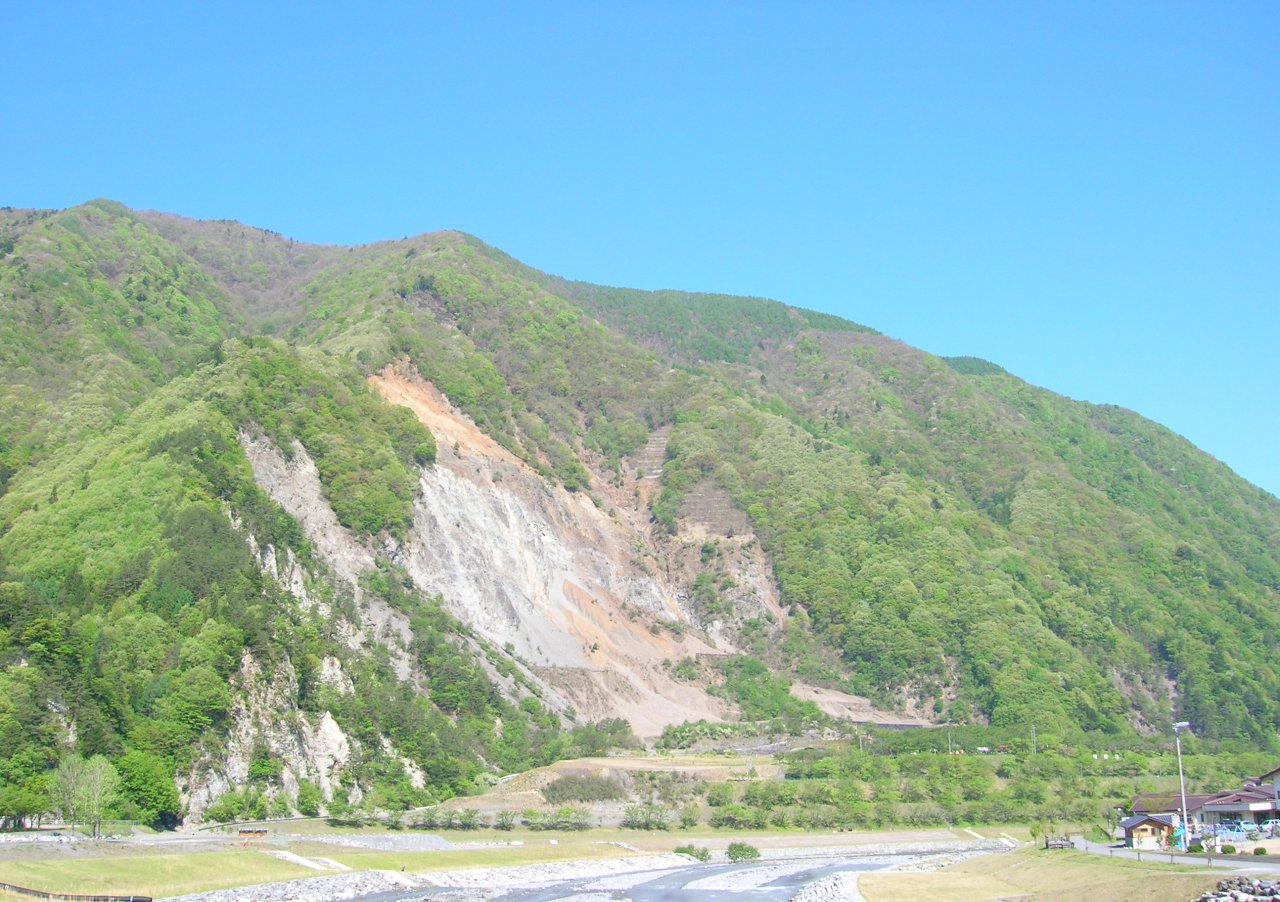 Oonishiyama. (Mt.Ohnishi、 Landslide At in 1961.) Loc: Oshika, Nagano Prefecture, Japan 大西山・昭和36年の崩落跡。 撮影場所 長野県下伊那郡大鹿村